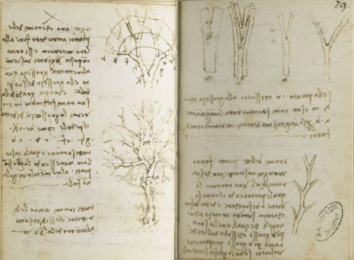 Paris Manuscript M, Folio 78v and 79r, by Leonardo da Vinci, Institut de France